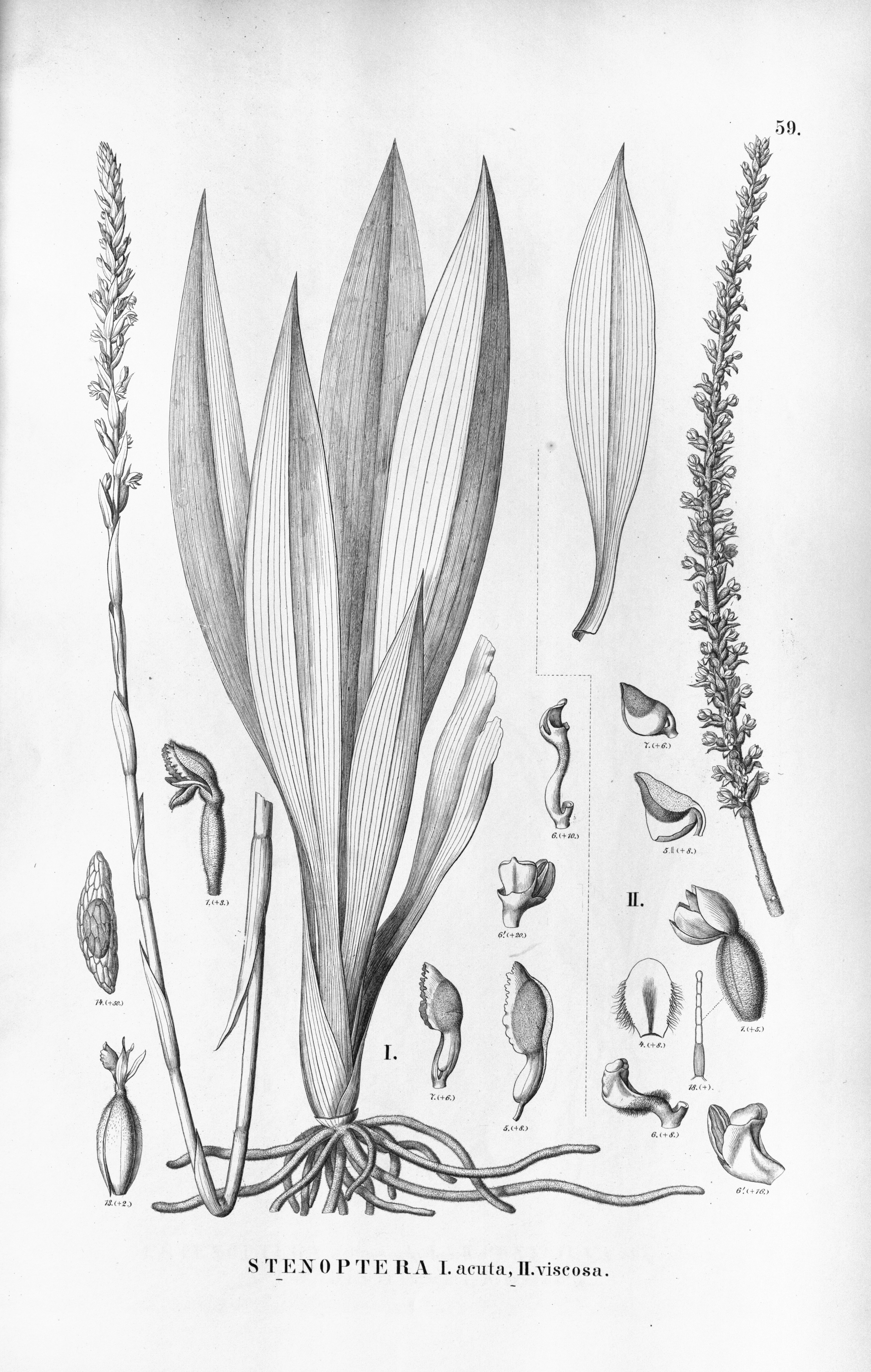 Illustration of : I. Stenoptera acuta II. Gomphichis viscosa (as syn. Stenoptera viscosa)